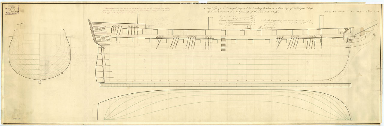 Isis (1819) Scale: 1:48. Plan showing the body plan, sheer lines, and longitudinal half-breadth proposed (and approved) for Isis (1819), as a 50-gun (later 58-gun) 'spar-deck' Large Fourth Rate Frigate rather than the original design of a 50-gun two-decker. The plan includes alterations for her as a frigate. Signed by Joseph Tucker [Surveyor of the Navy, 1813-1831] and Robert Seppings [Surveyor of the Navy, 1813-1832]. ISIS 1819